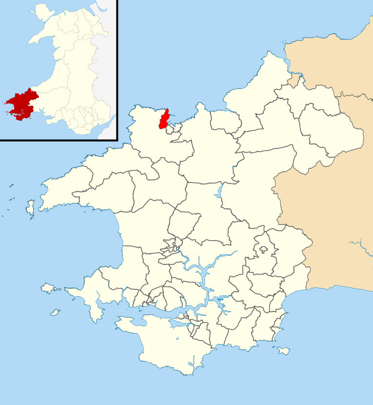 Location map of Goodwick electoral ward in north Pembrokeshire, Wales, which elects councillors to Pembrokeshire County Council and Fishguard and Goodwick Town Council.